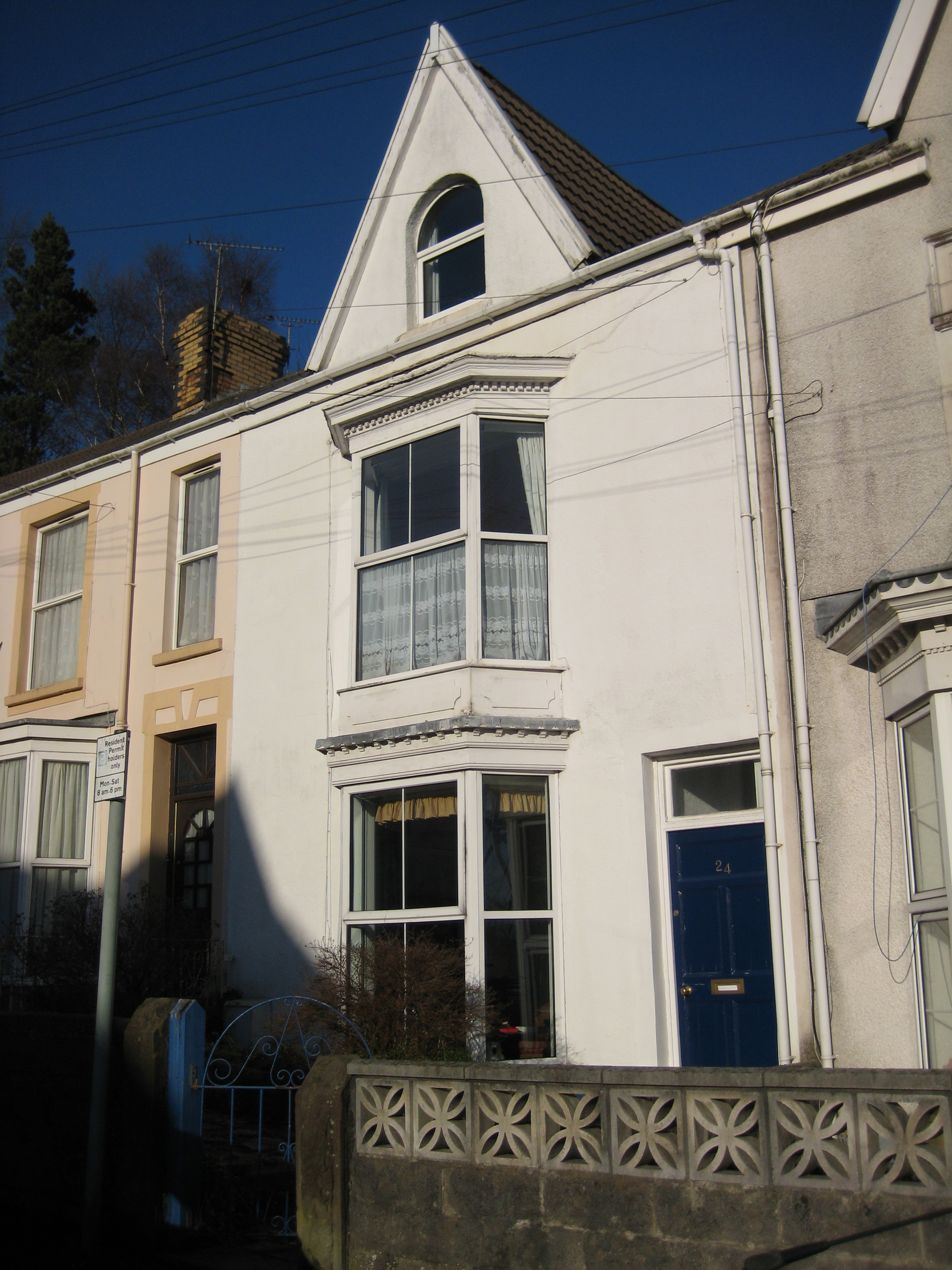 24 The Grove, Uplands, Swansea. Swansea home of novelist Kingsley Amis.